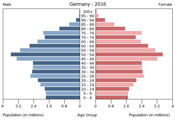 The population pyramid of Germany illustrates the age and sex structure of population and may provide insights about political and social stability, as well as economic development. The population is distributed along the horizontal axis, with males shown on the left and females on the right. The male and female populations are broken down into 5-year age groups represented as horizontal bars along the vertical axis, with the youngest age groups at the bottom and the oldest at the top. The shape of the population pyramid gradually evolves over time based on fertility, mortality, and international migration trends.